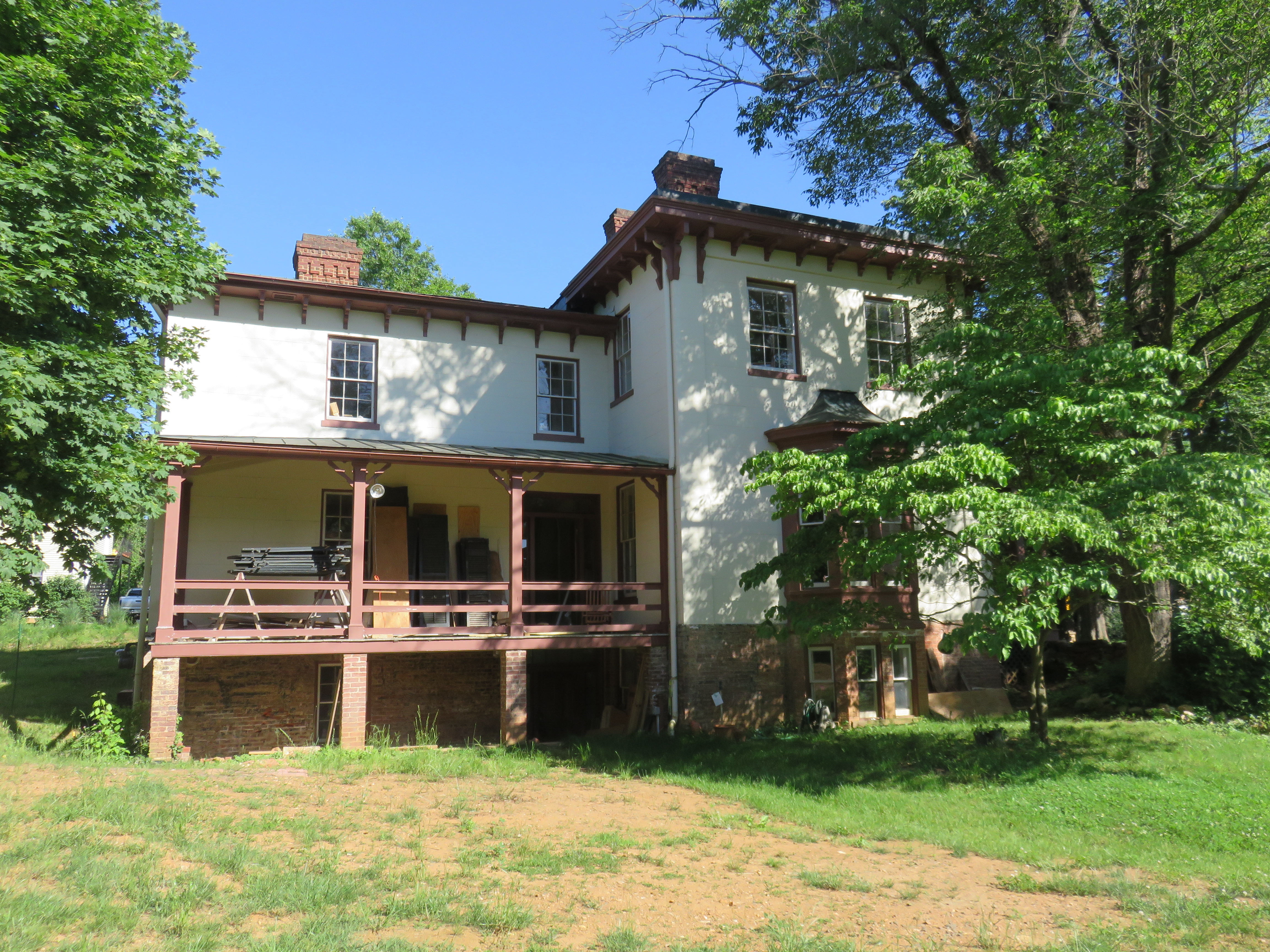 Brentmoor in Warrenton, Virginia in 2020